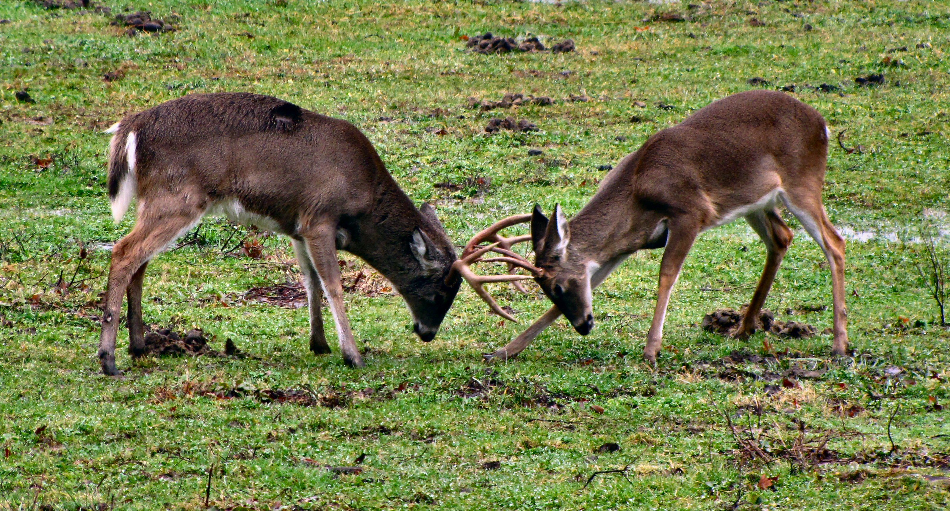 Whitetail deer bucks locking antlers during late rut in Cades Cove, in the Great Smoky Mountains of Blount County, Tennessee, United States.